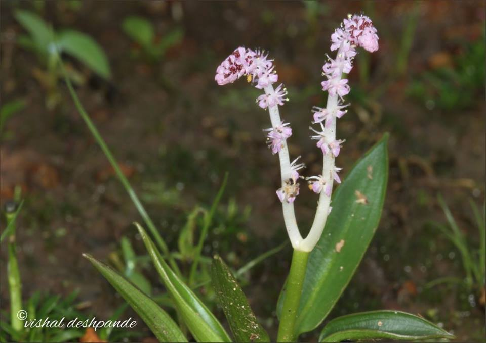 सातारा येथील प्रदेशनीष्ठ वनस्पती